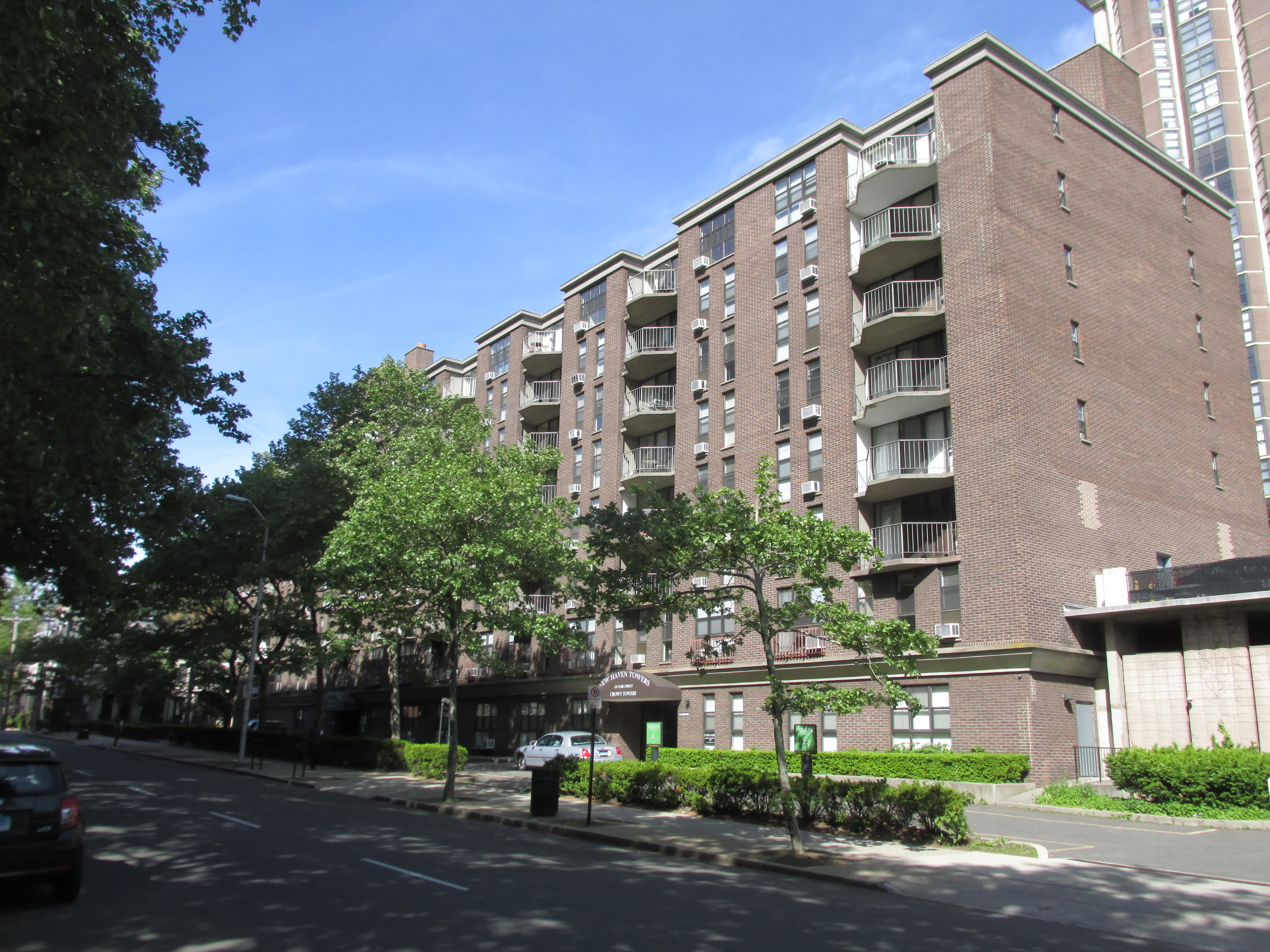 Crown Towers, New Haven Connecticut - 2014